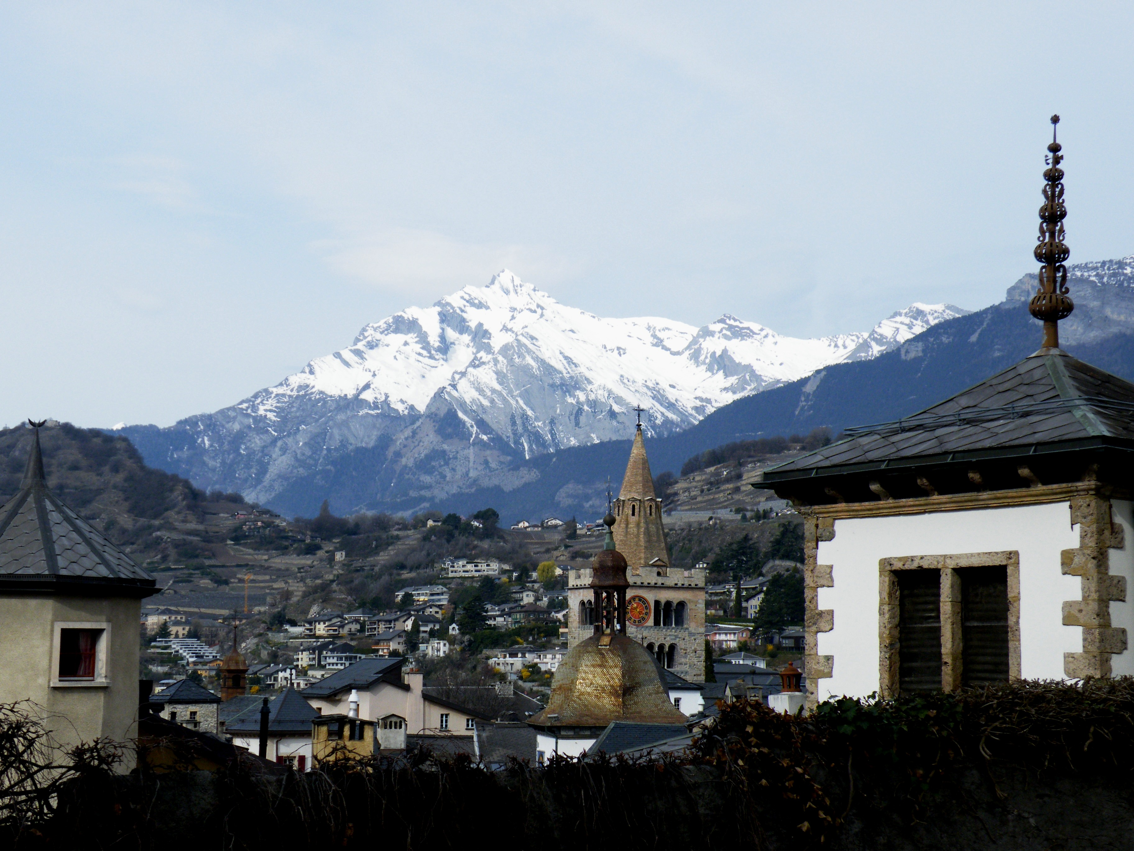 View towards the Haut de Cry mountain from Sion